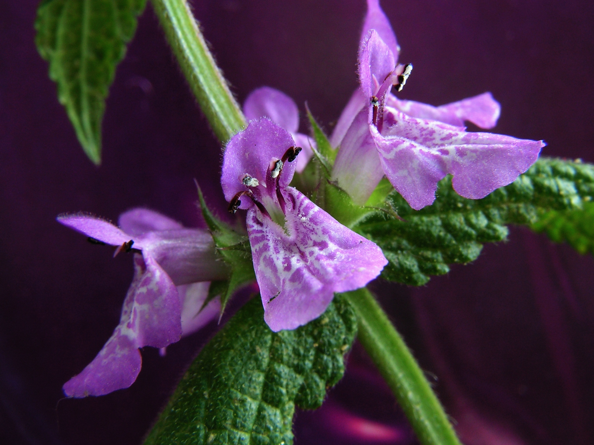 Flowers of Marsh Woundwort (Marsh Hedgenettle) (single flower height is appr. 10 mm). Moscow region, Russia.